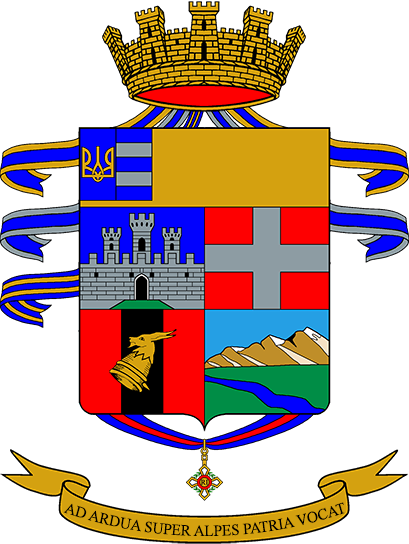 Coat of Arms of the "Vicenza" Alpini Battalion; Italian Army.